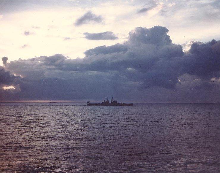 USS Santa Fe (CL-60) silhouetted against an Aleutians sunset, while operating in the North Pacific circa April-August 1943.